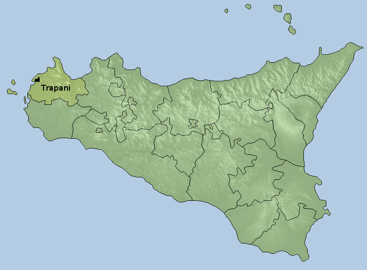 Map of the diocese of Trapani (^^: Cathedral of a metropolitan diocese, –^: Cathedral of a suffragan diocese, ^–: Co-cathedral)